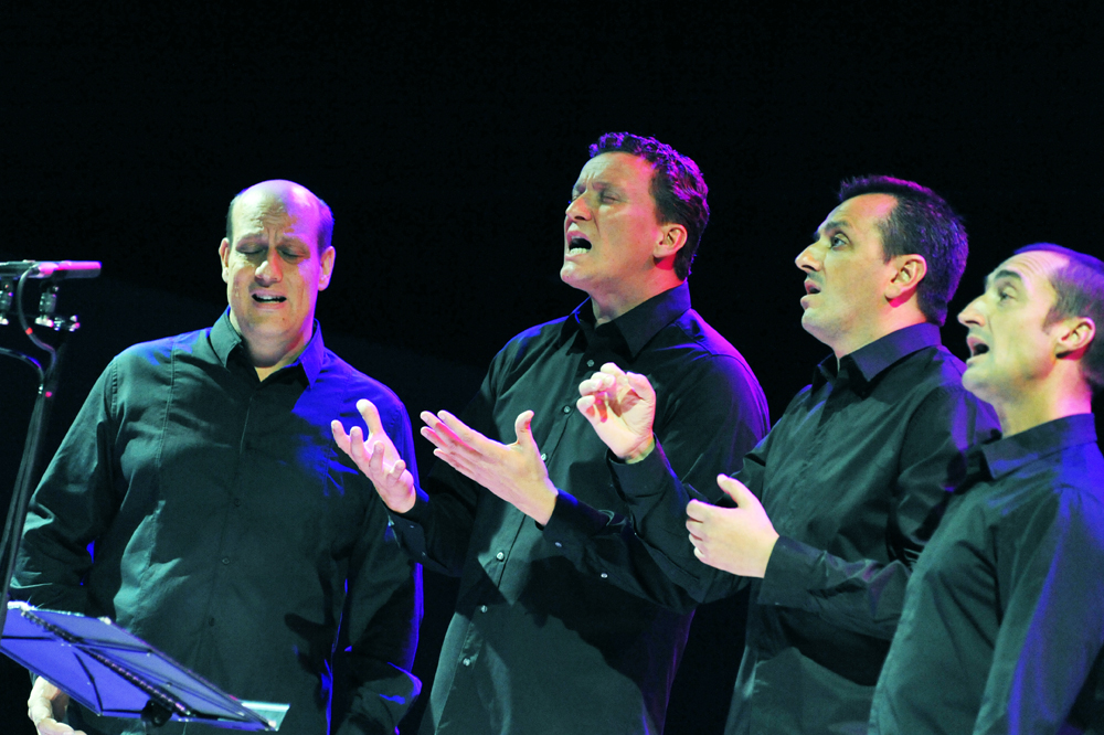 Vocal group Barbara Furtuna from island Corse performing at Warszawa Cross Culture Festival in September 2011.